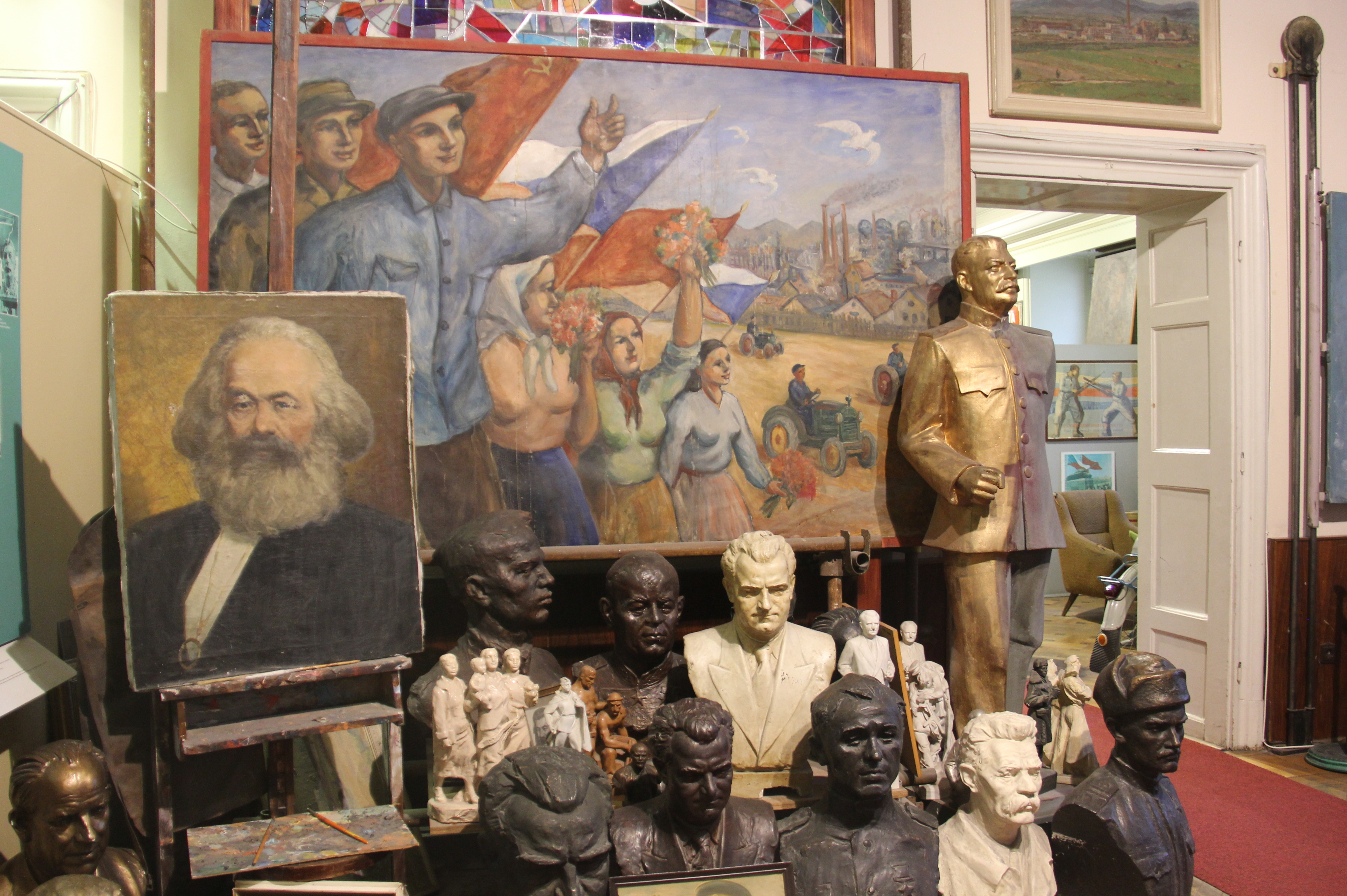 Museum of Communism